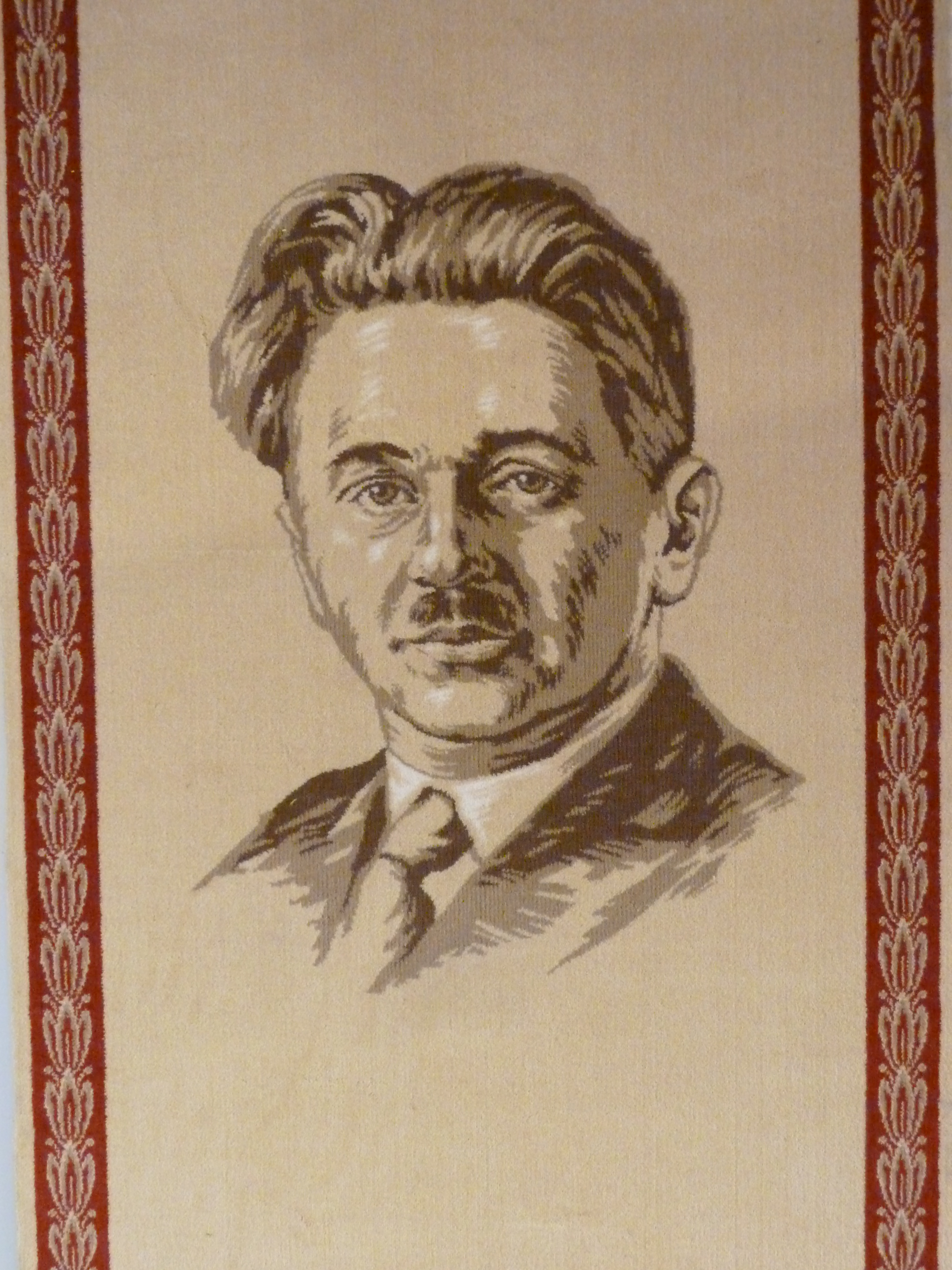 Fritz (Friedrich Carl) Heckert (* 28 March 1884 in Chemnitz, † 7 April 1936 in Moscow) was a German politician, co-founder of the Spartacus League and the Communist Party of Germany and a leading member of the Communist International (Comintern). Fritz Heckert also briefly served as the Saxon Minister of Economy in 1923.